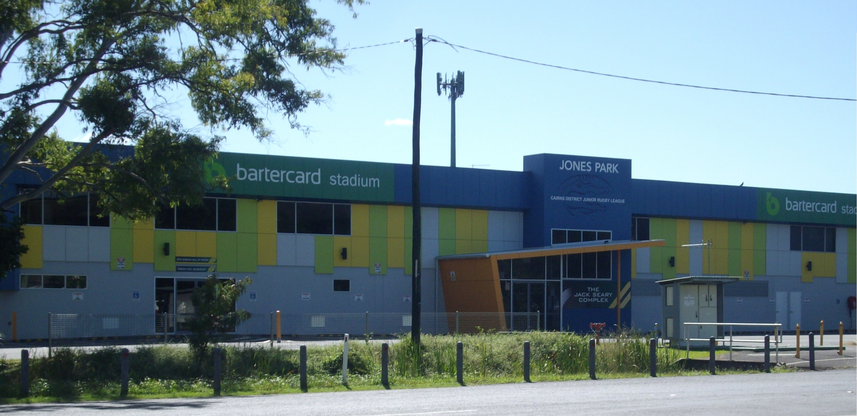 Jones Park Rugby